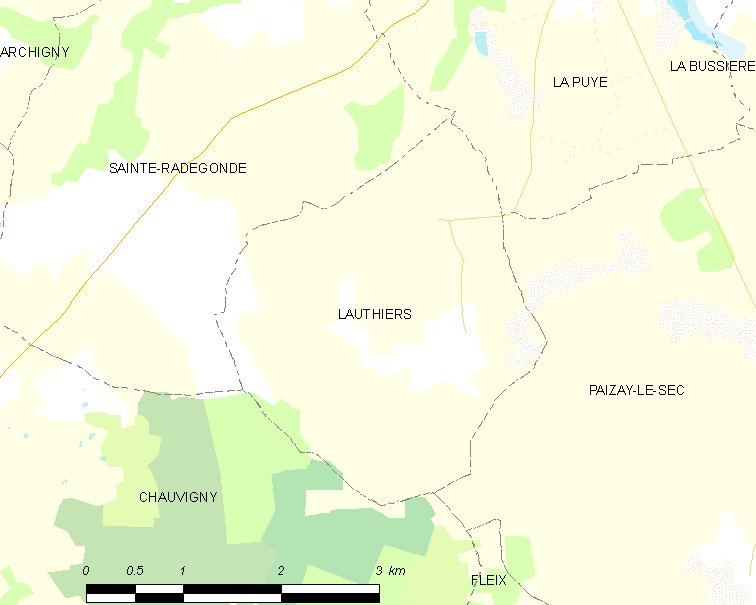 Map of French municipality Lauthiers